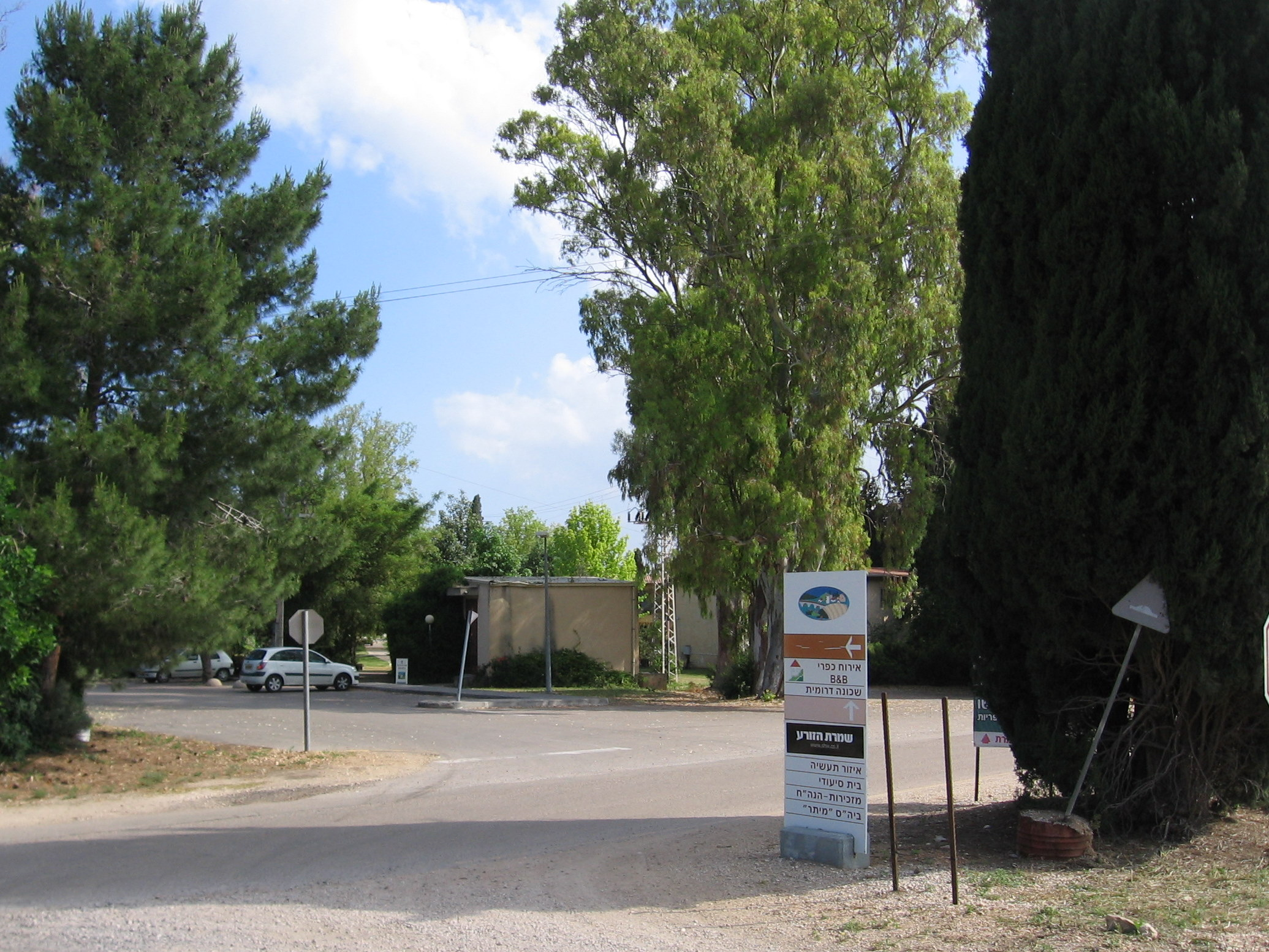 Entrance to Kibbutz Shomrat